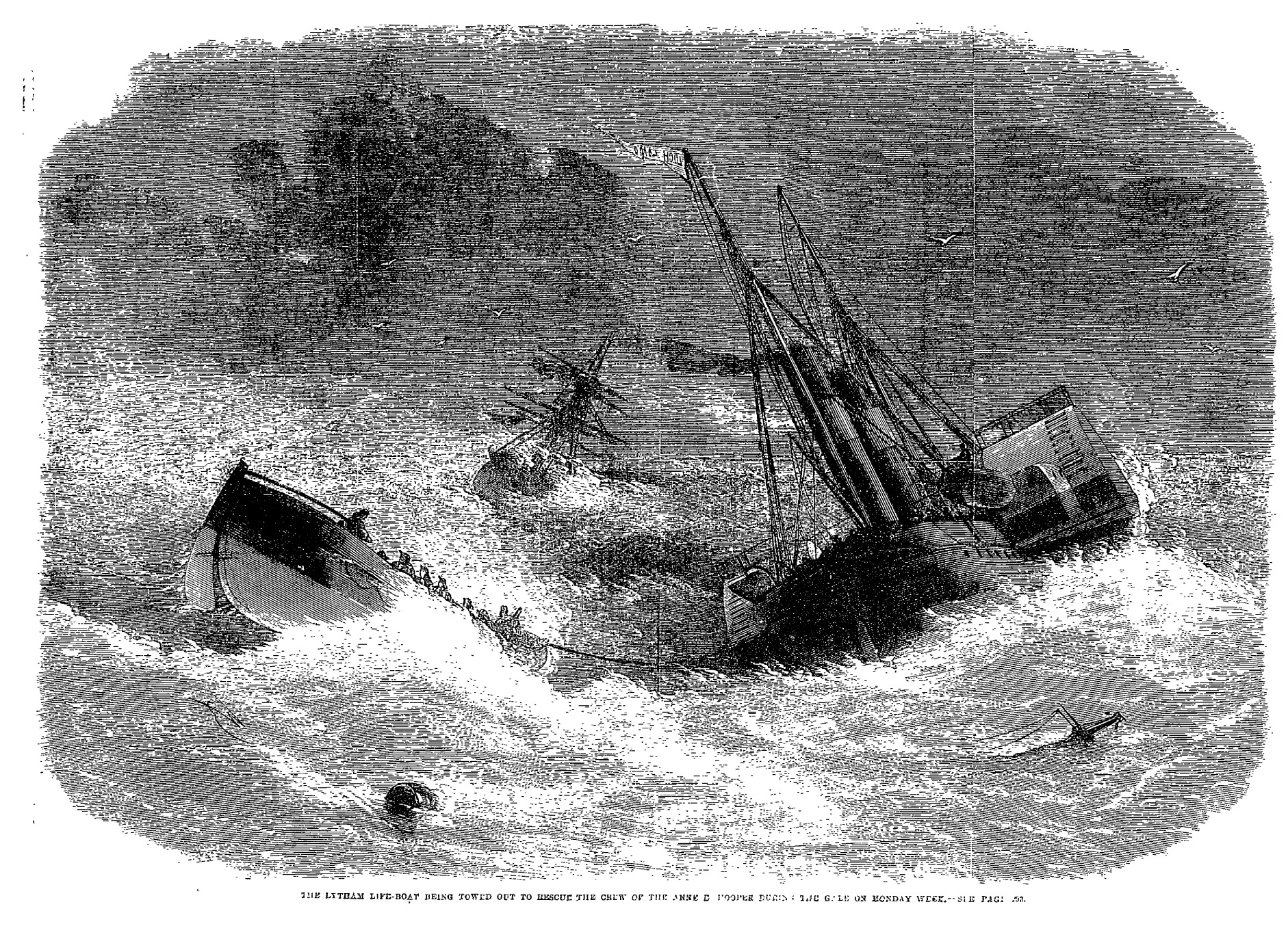 A paddle tug towing the Lytham Lifeboat out to assist in the rescue of the crew of Anne E. Hooper off the coast of Lancashire, United Kingdom on 18 October 1862.